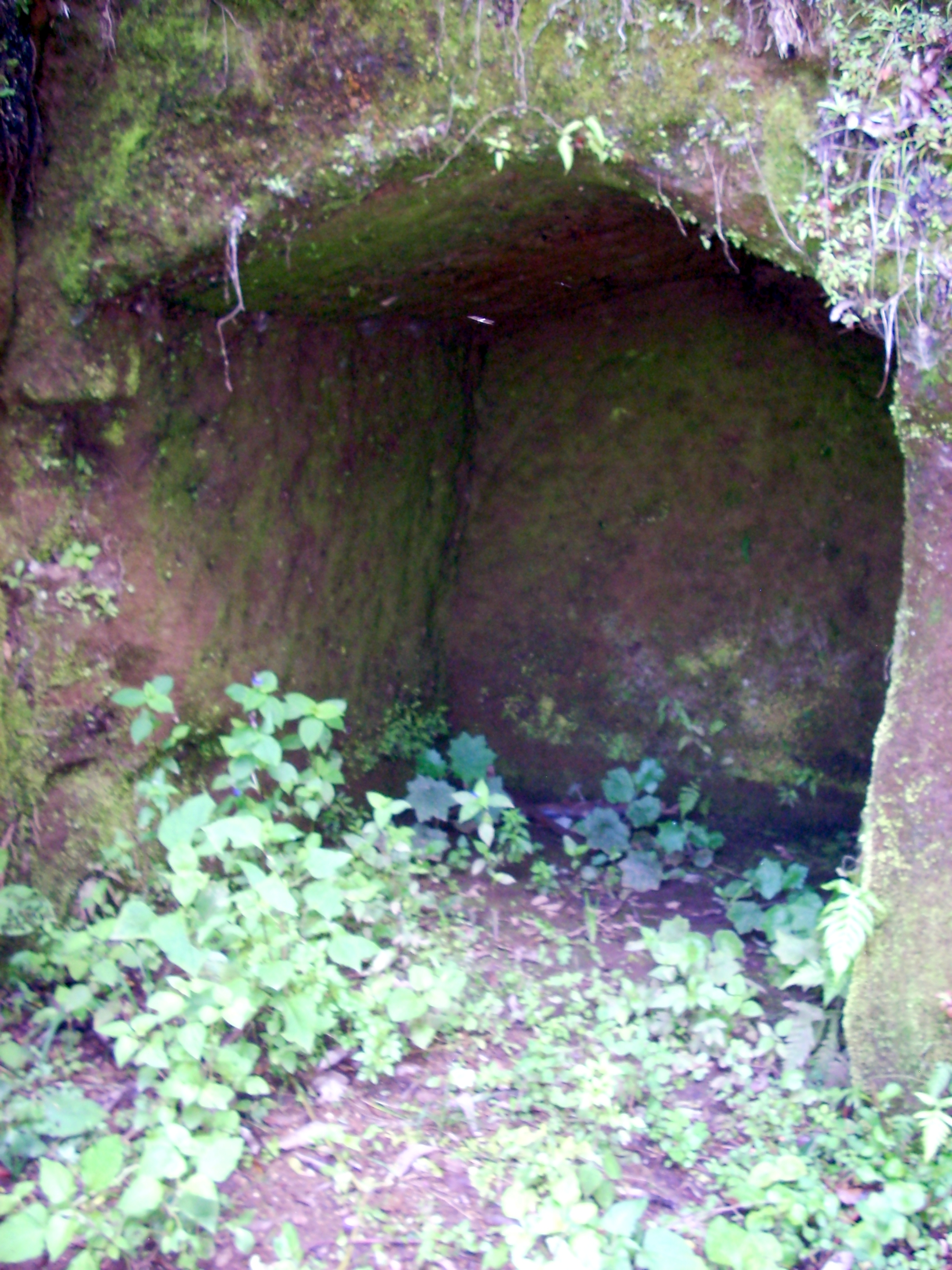 Artificial cave at Chojolom, located behind where the smaller of the boulder heads was found. This cave originally contained an offering consisting of a large sulphur crystal according to the land-owner.